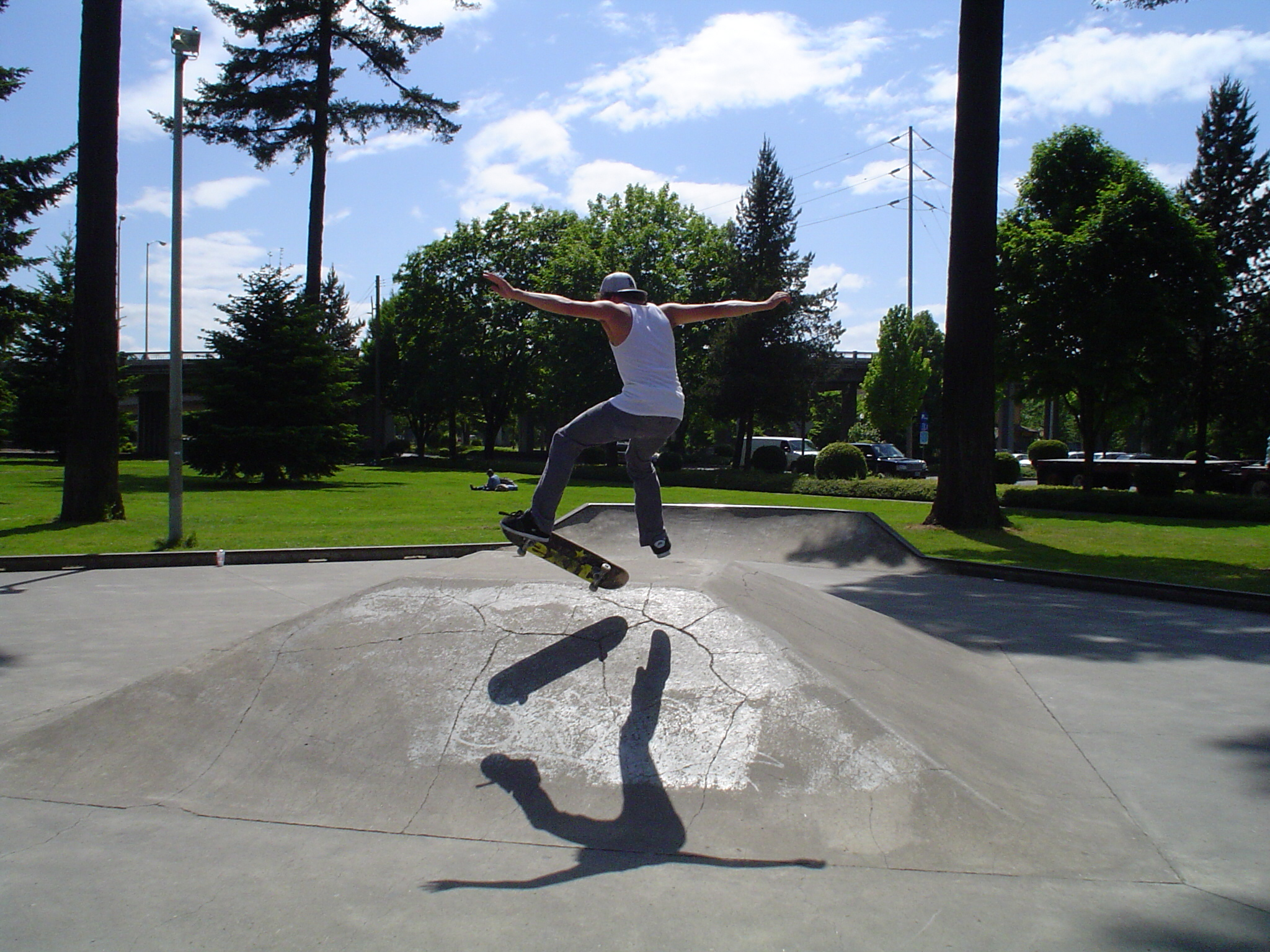 Picture taken of teen skater in Marion Square Park in Salem, Oregon, USA. (If this image is used elsewhere, please list me as the photographer.)